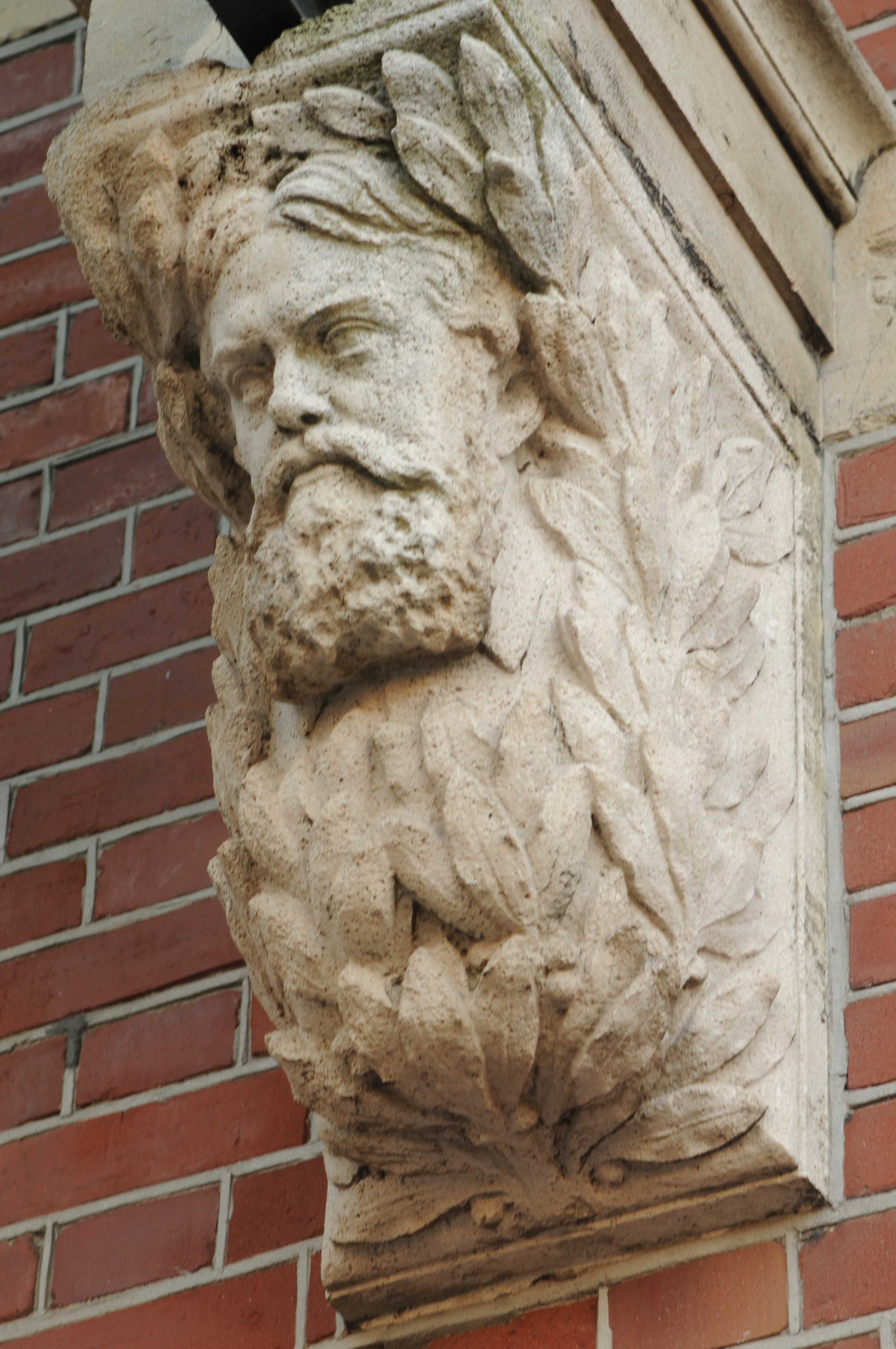 Victor de Stuers at front Rijksmuseum Amsterdam, directly next to the northern old entrance, at Stadhouderskade